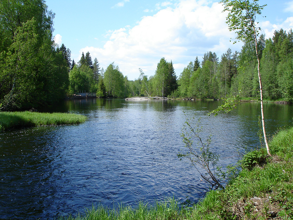 The outlet of River Pålböleån into River Sävarån, Västerbotten county, Sweden.